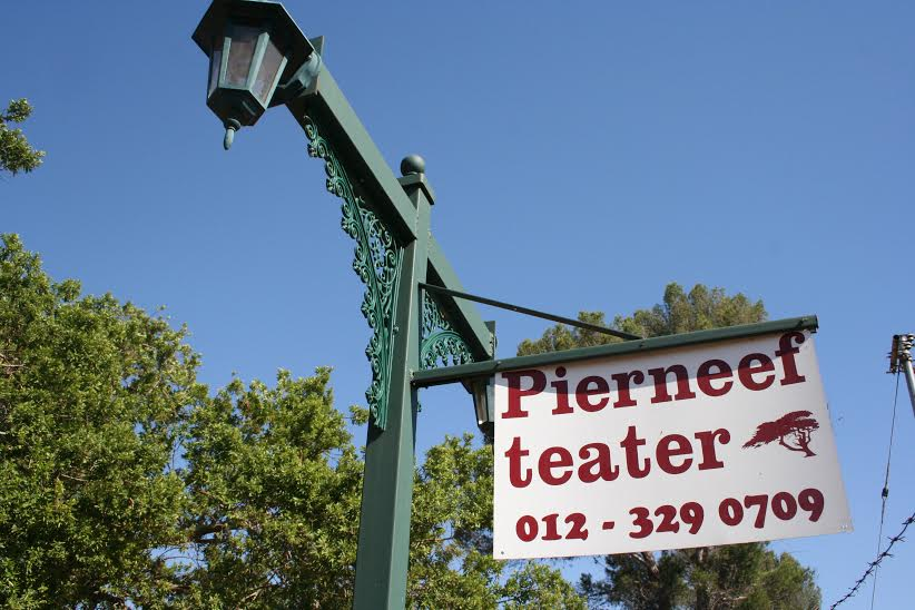 Signage for Pierneefteater